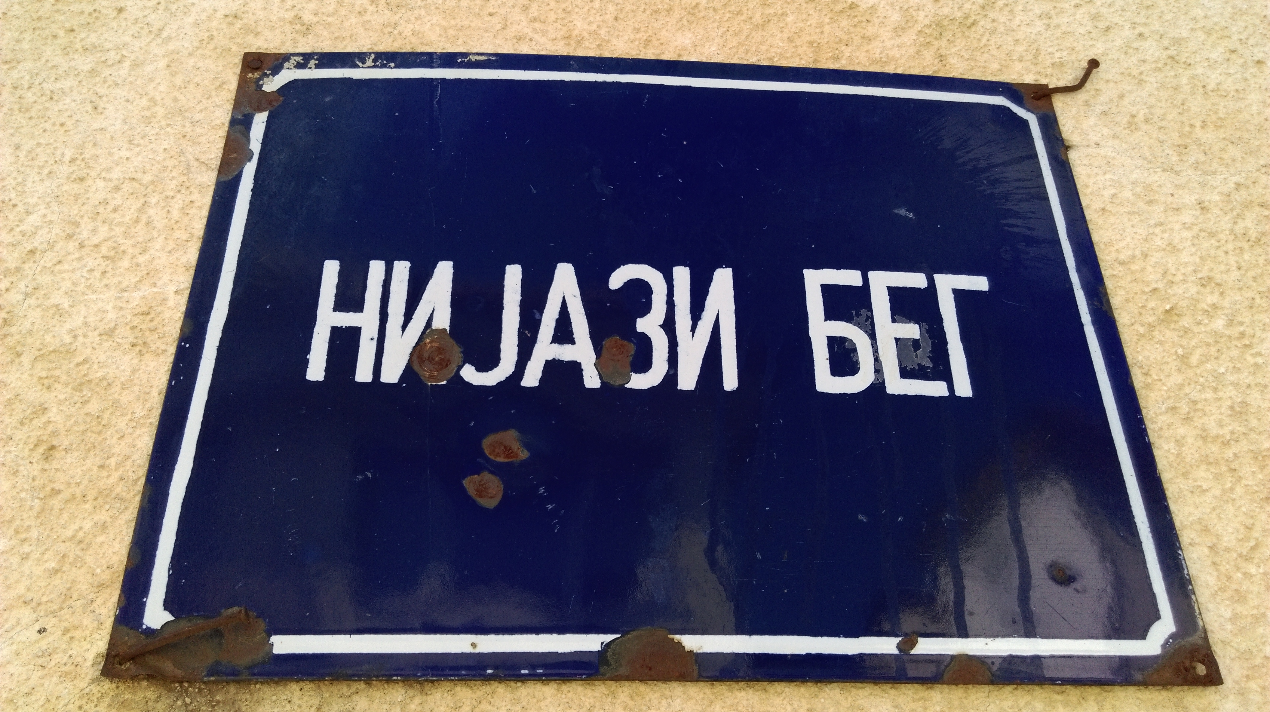 Niyazi Beg (Niyazi Bey) street in Resen, Macedonia